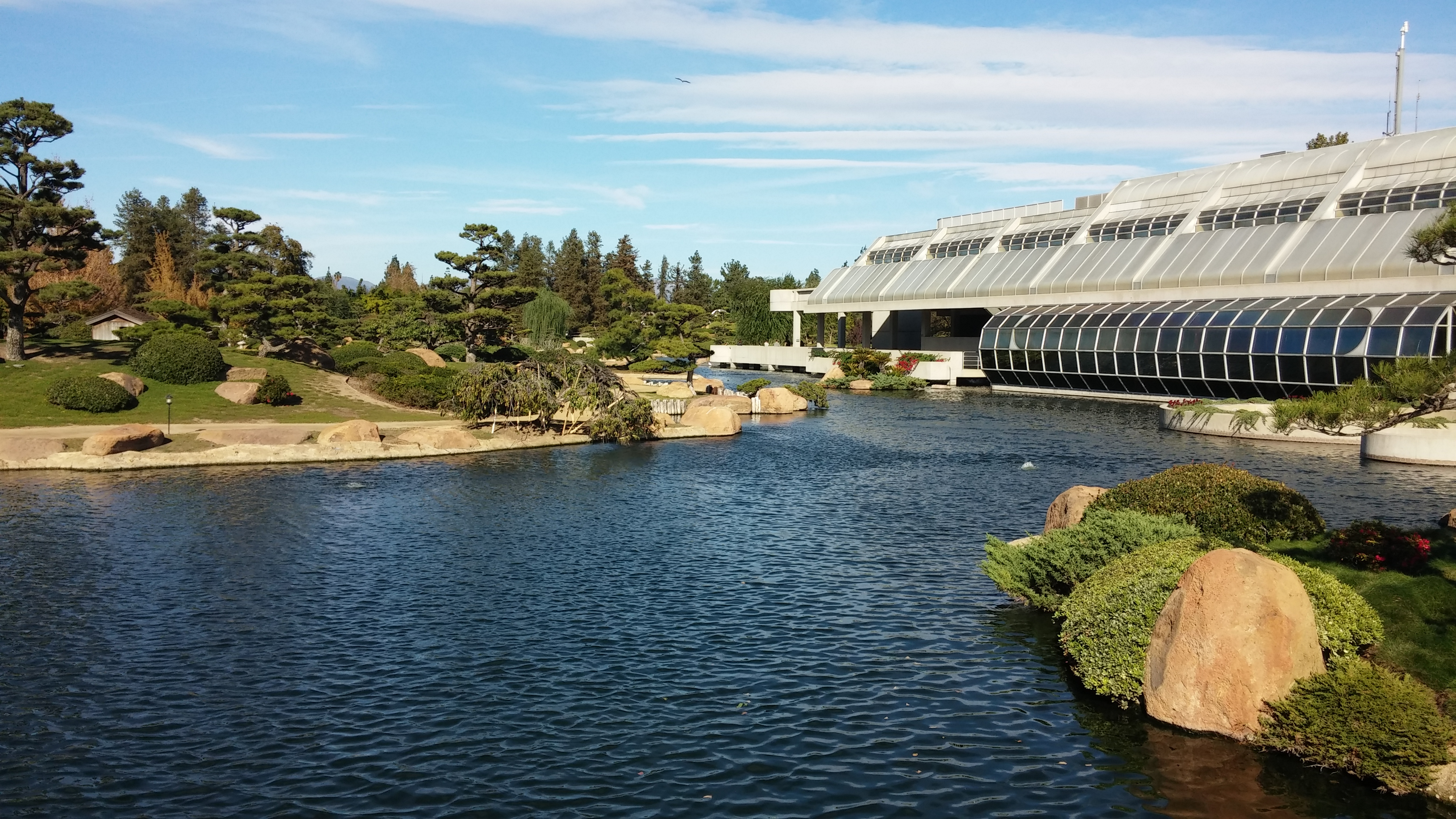 The Japanese Garden, Van Nuys, California. On the right side Donald C. Tillman Water Reclamation Plant